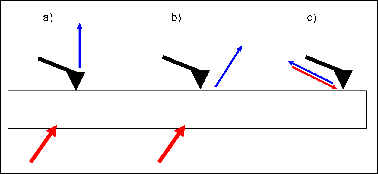 (G. Kaupp. Atomic Force Microscopy, Scanning Nearfield Optical Microscopy and Nanoscratching: Application to Rough and Natural Surfaces. Heidelberg: Springer, 2006.)